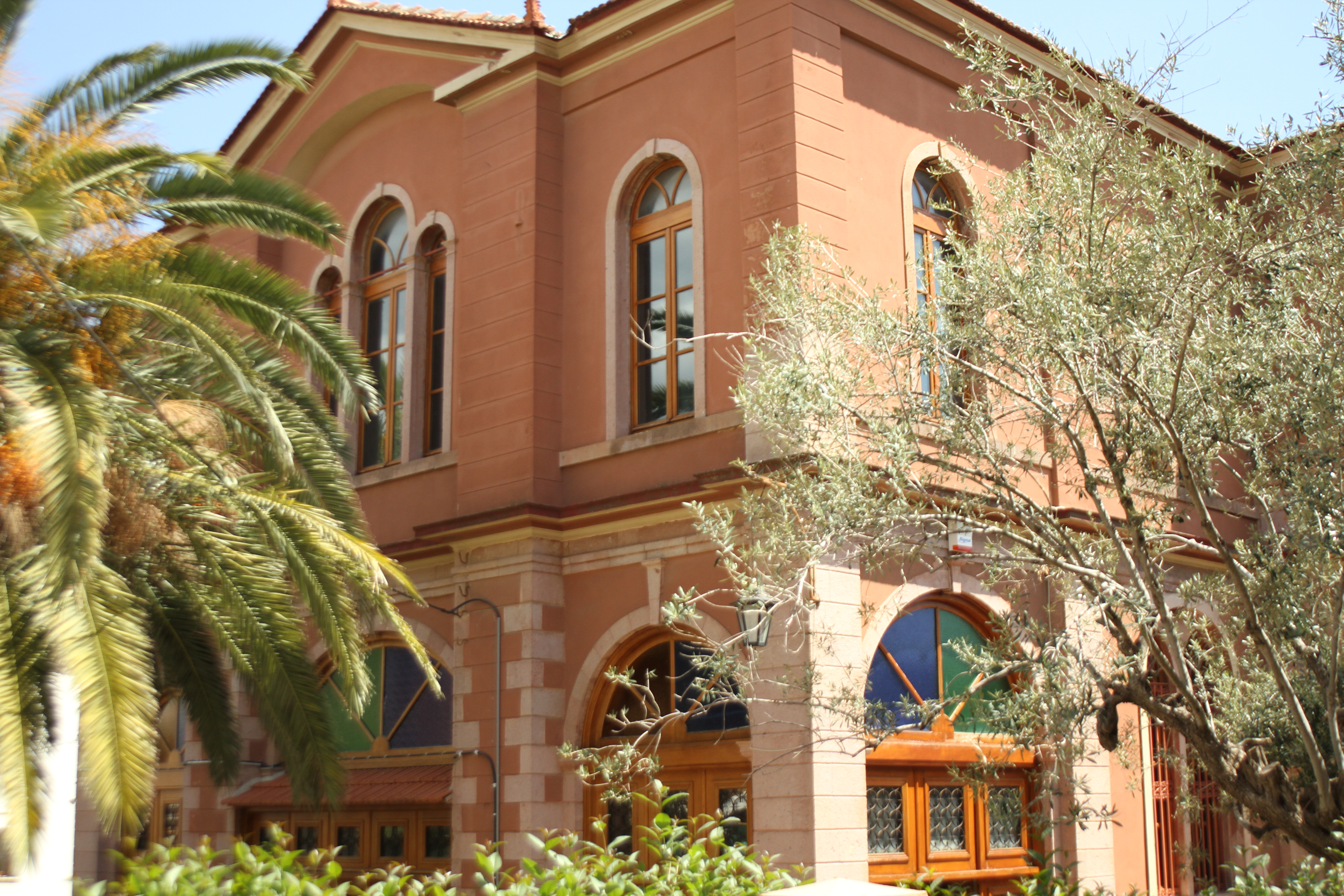 This is the church of Saint Simeon Mytilini